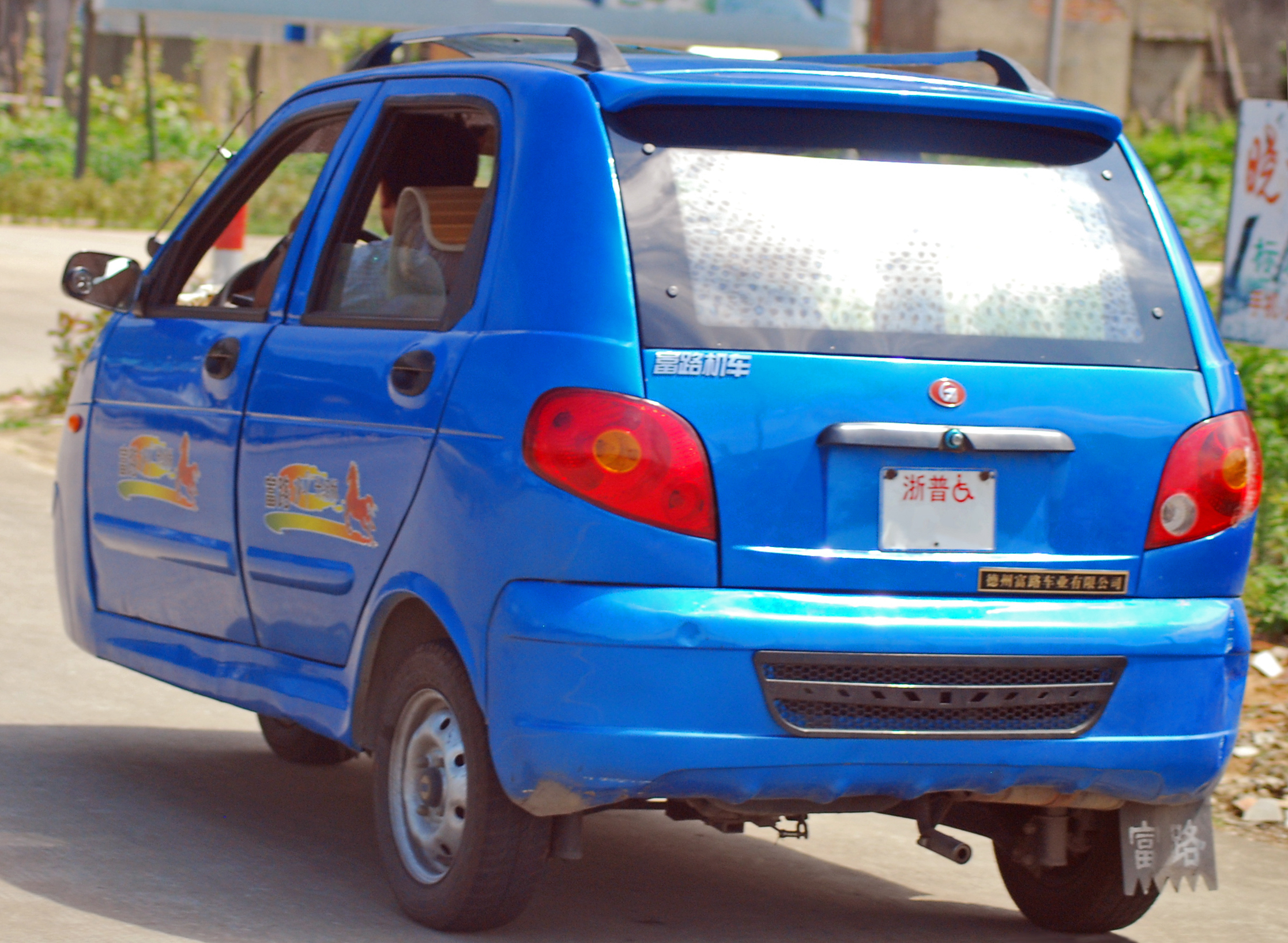 富路机车 (Fulu) FL250ZK-7 three-wheeled automobile, with special handicap registration.